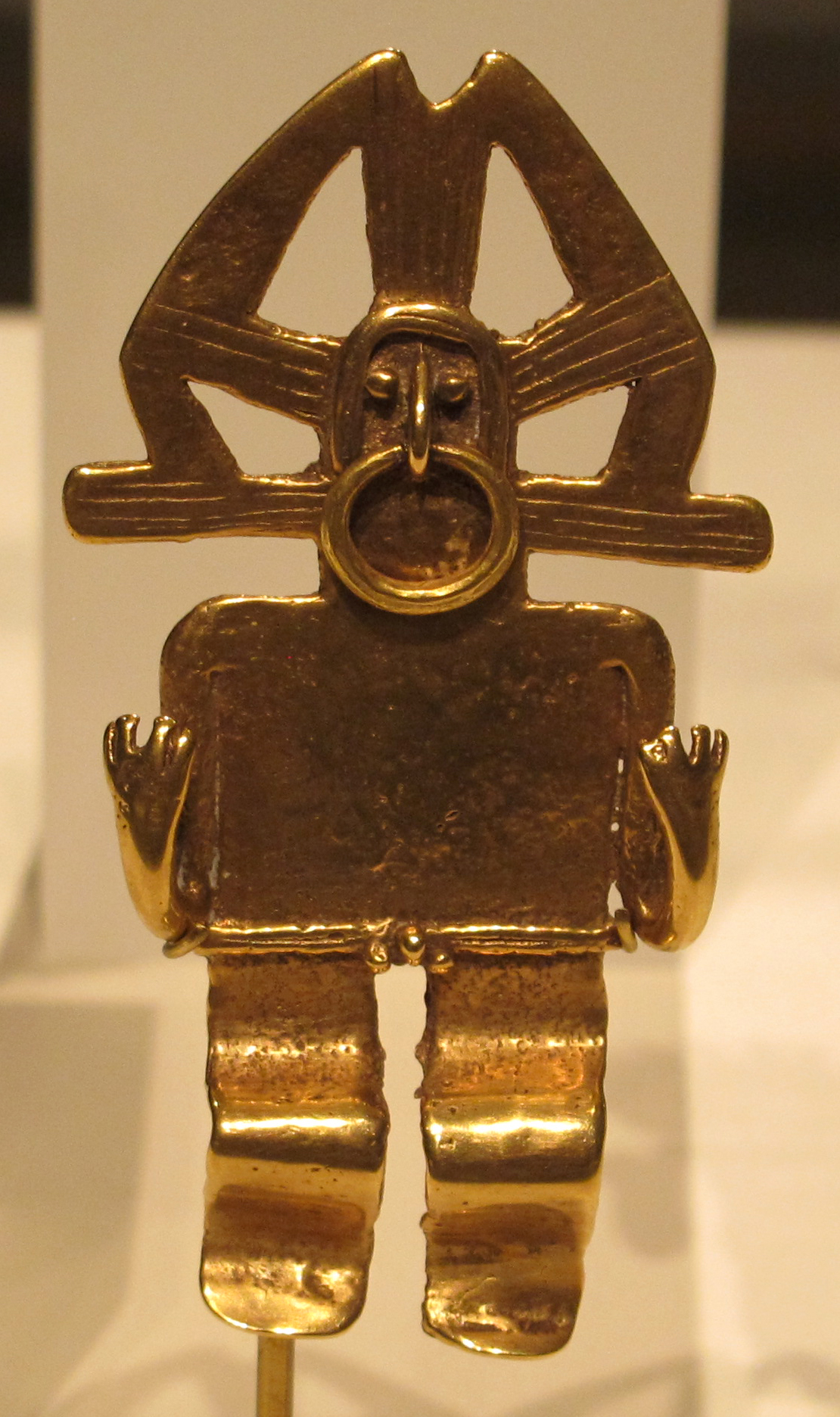 Pre-Columbian jewellery in the Metropolitan Museum of Art